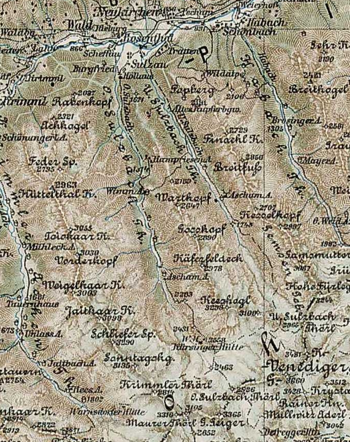 3rd Military Mapping Survey of Austria-Hungary - Bruneck; detail: O(beres) + U(nteres) Sulzbach Th(al)